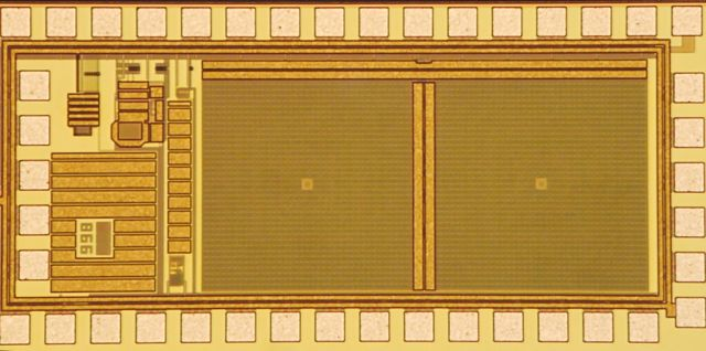 This image shows two complementary PFCAs as square arrays of angle-sensitive pixels.